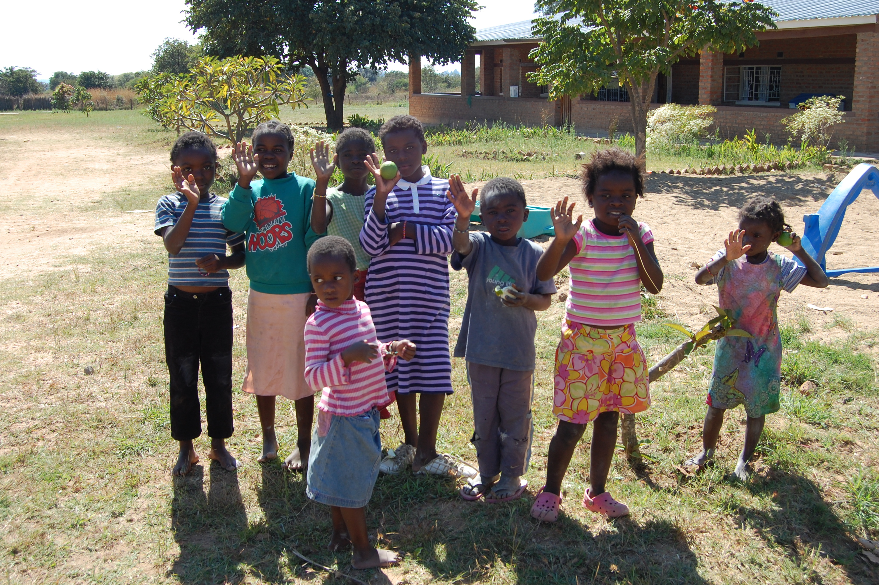 Photography: Ross Uchida